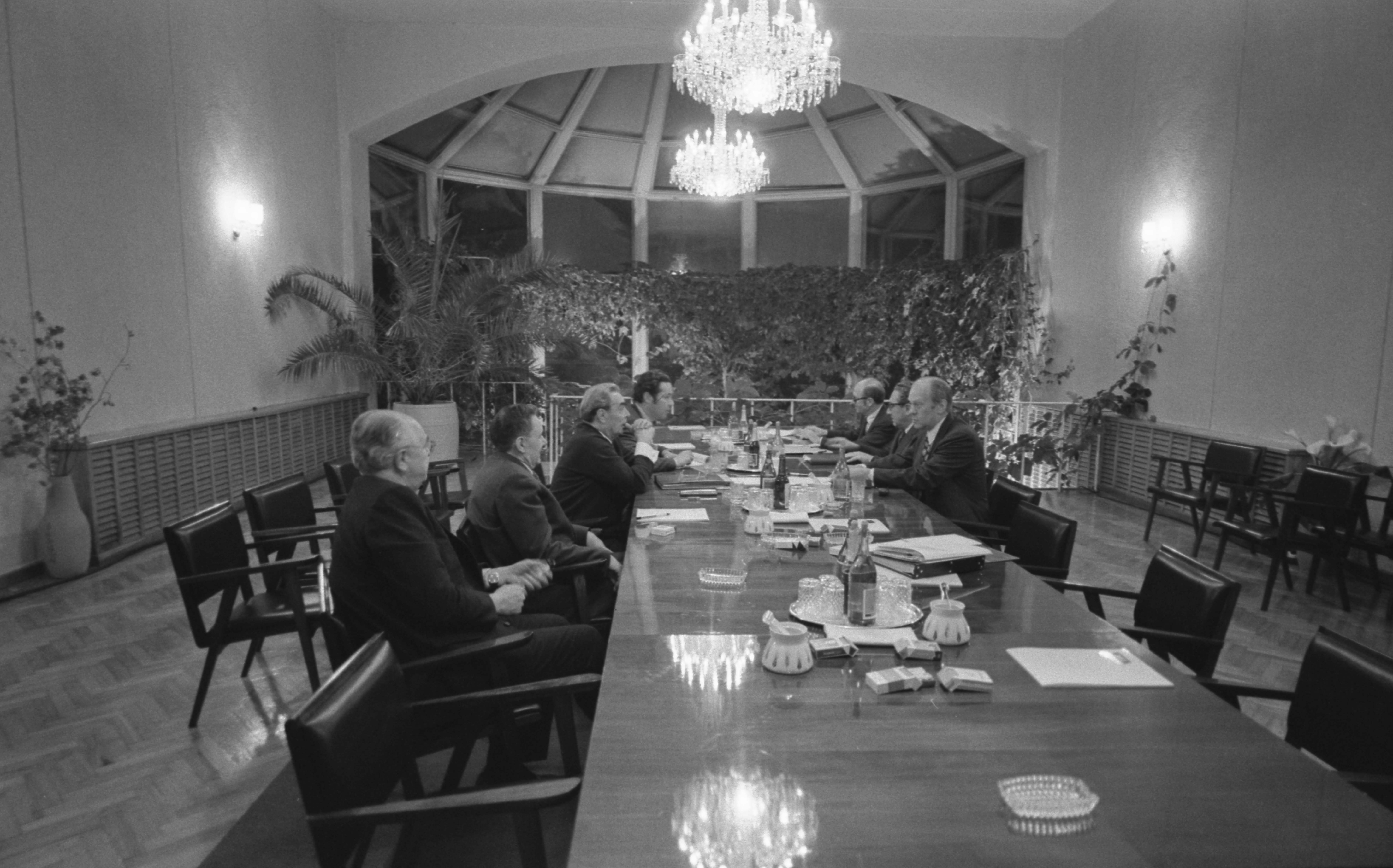 Photograph of President Gerald Ford, General Secretary Leonid Brezhnev, and others attending a late night meeting on November 23 that extended into the early hours of November 24 at the Vladivostok Summit.